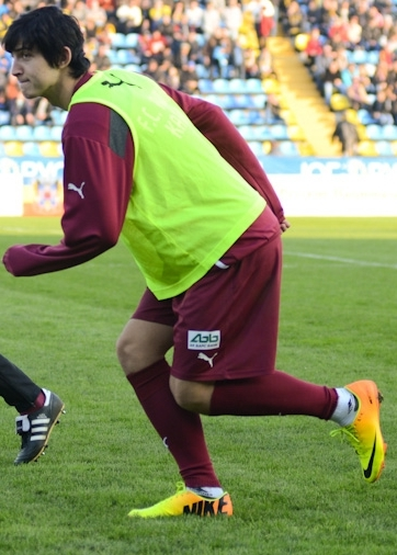 Serdar Azmun with FC Rubin Kazan in 2013.